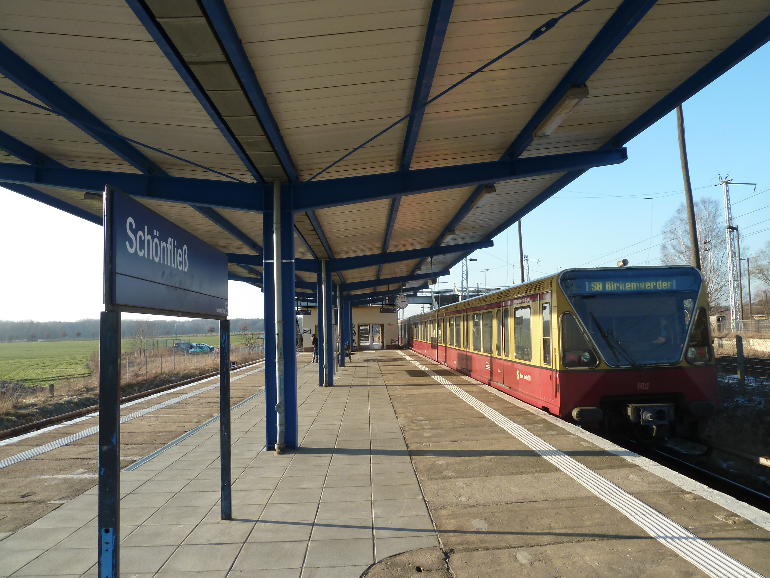 Schönfließ railway station, near Berlin, platform with S-Bahn train